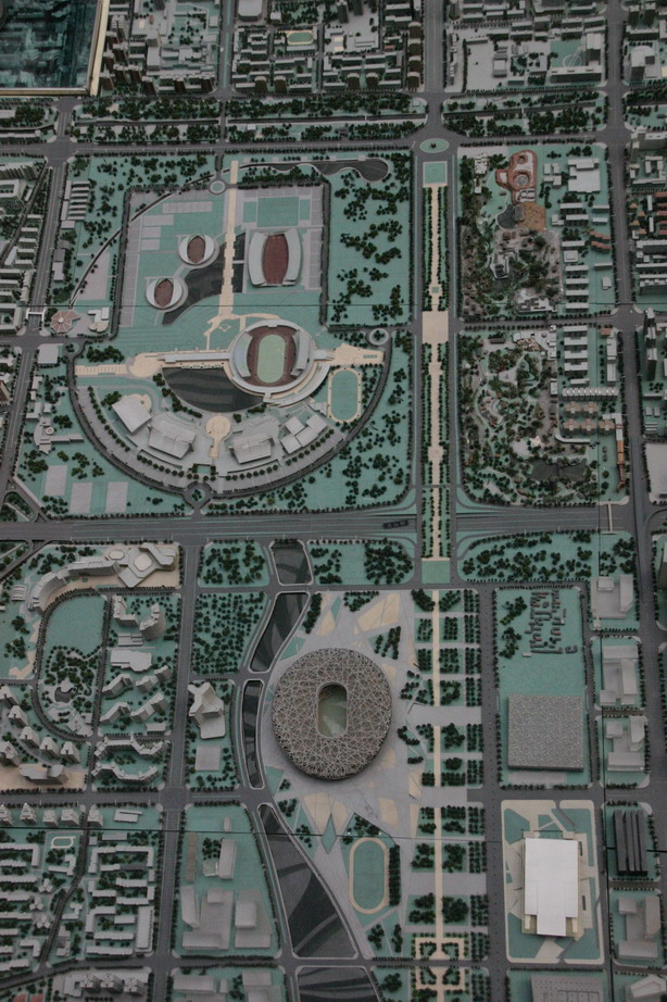 Model of Olympic 2008 in Beijing